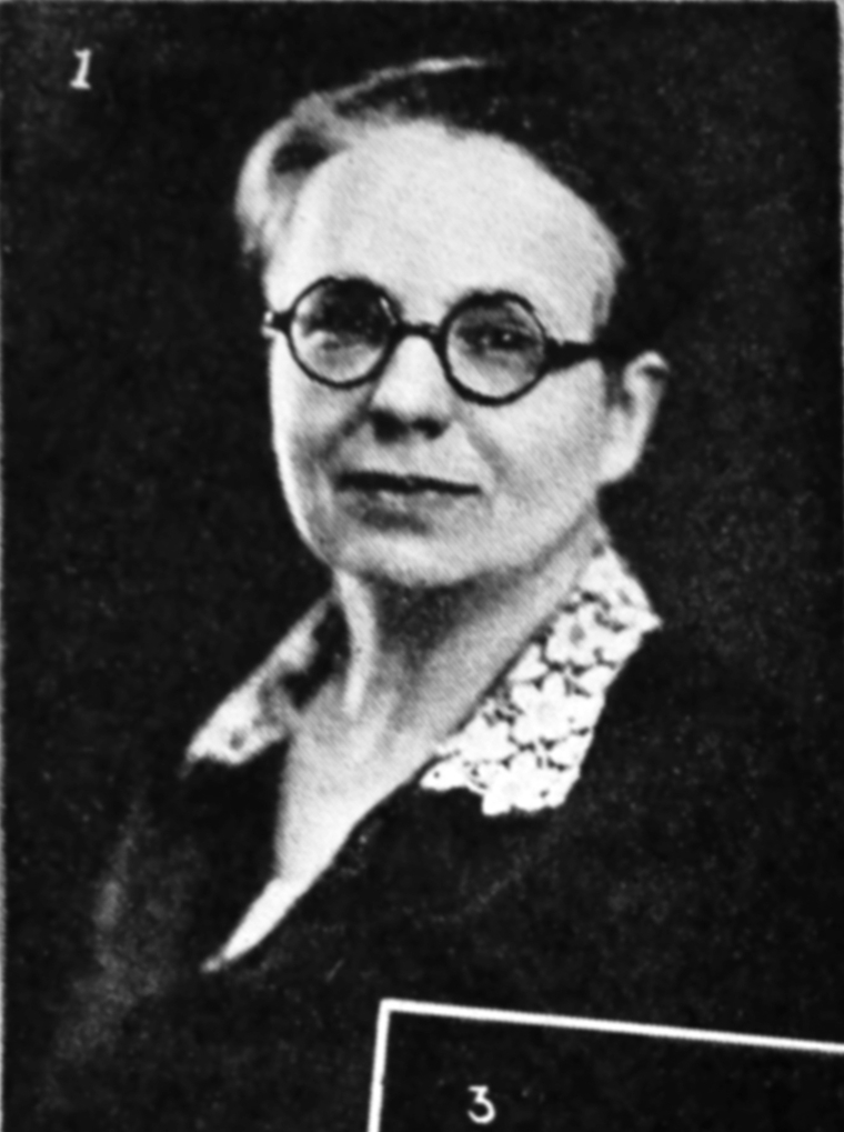 Women of the West; a series of biographical sketches of living eminent women in the eleven western states of the United States of America by Binheim, Max; Elvin, Charles A Publication date 1928 Topics Women Publisher Los Angeles, Calif., Publishers Press Collection uconn_libraries; americana Digitizing sponsor LYRASIS Members and Sloan Foundation Contributor University of Connecticut Libraries Language English 223 p. bports. c24 cm. Bookplateleaf 0003 Call number F595 .B59 Camera Canon EOS 5D Mark II Identifier womenofwestserie00binh Identifier-ark ark:/13960/t22c0sd8h Lccn 28021005 Ocr ABBYY FineReader 8.0 Page-progression lr Pages 284 Possible copyright status Copyright either not claimed or not renewed. Item is in the public domain. Ppi 500 Scandate 20130807152456 Scanner Scanningcenter boston Full catalog record MARCXML